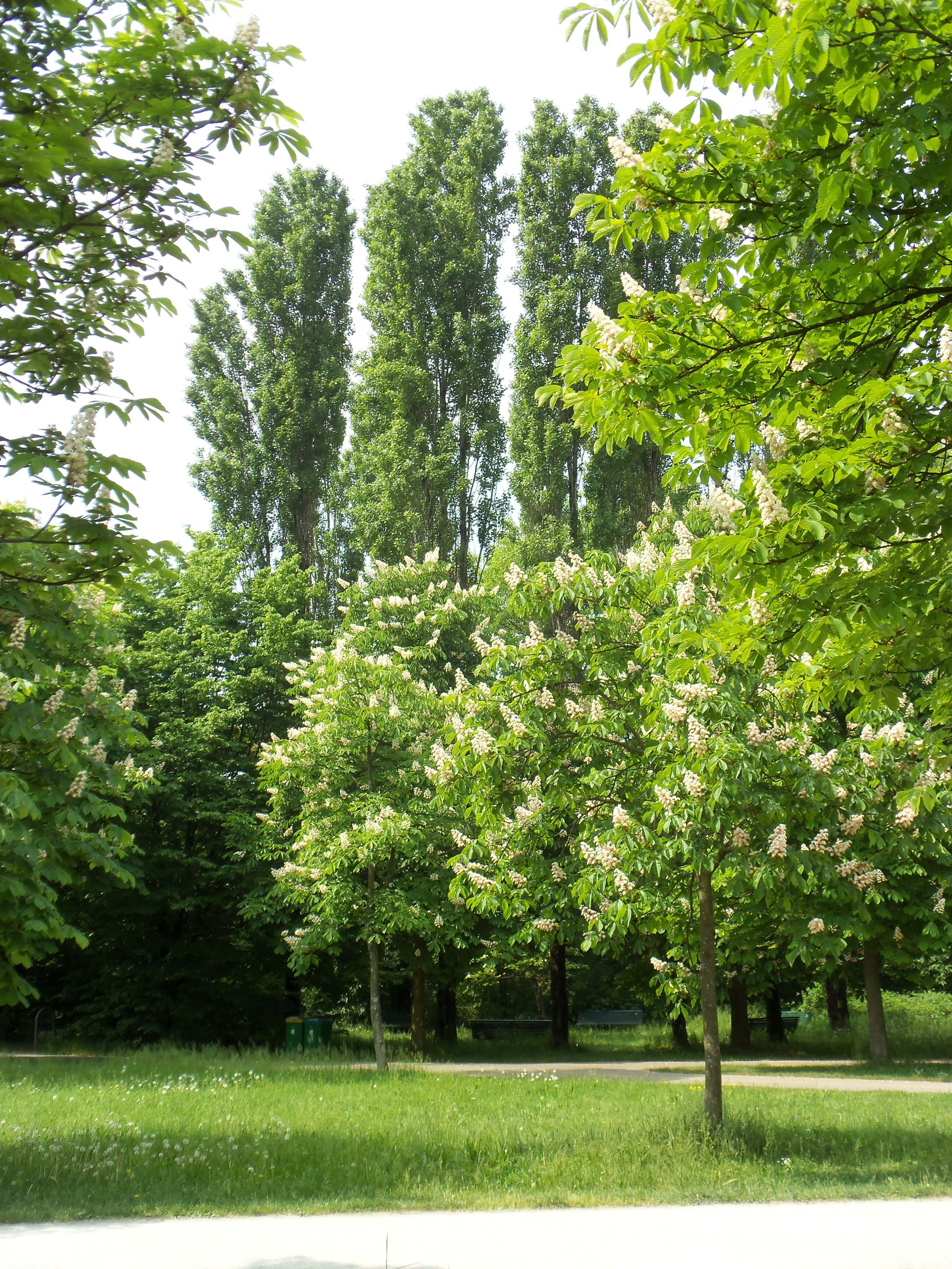 Milano: parco nord. Horse cesnuts in blossom and poplars